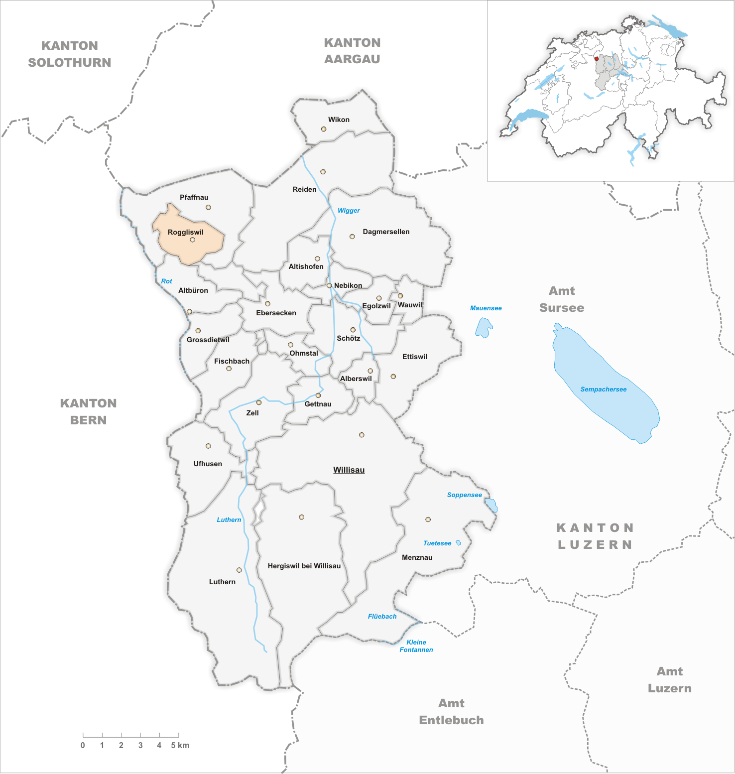 Municipality Roggliswil